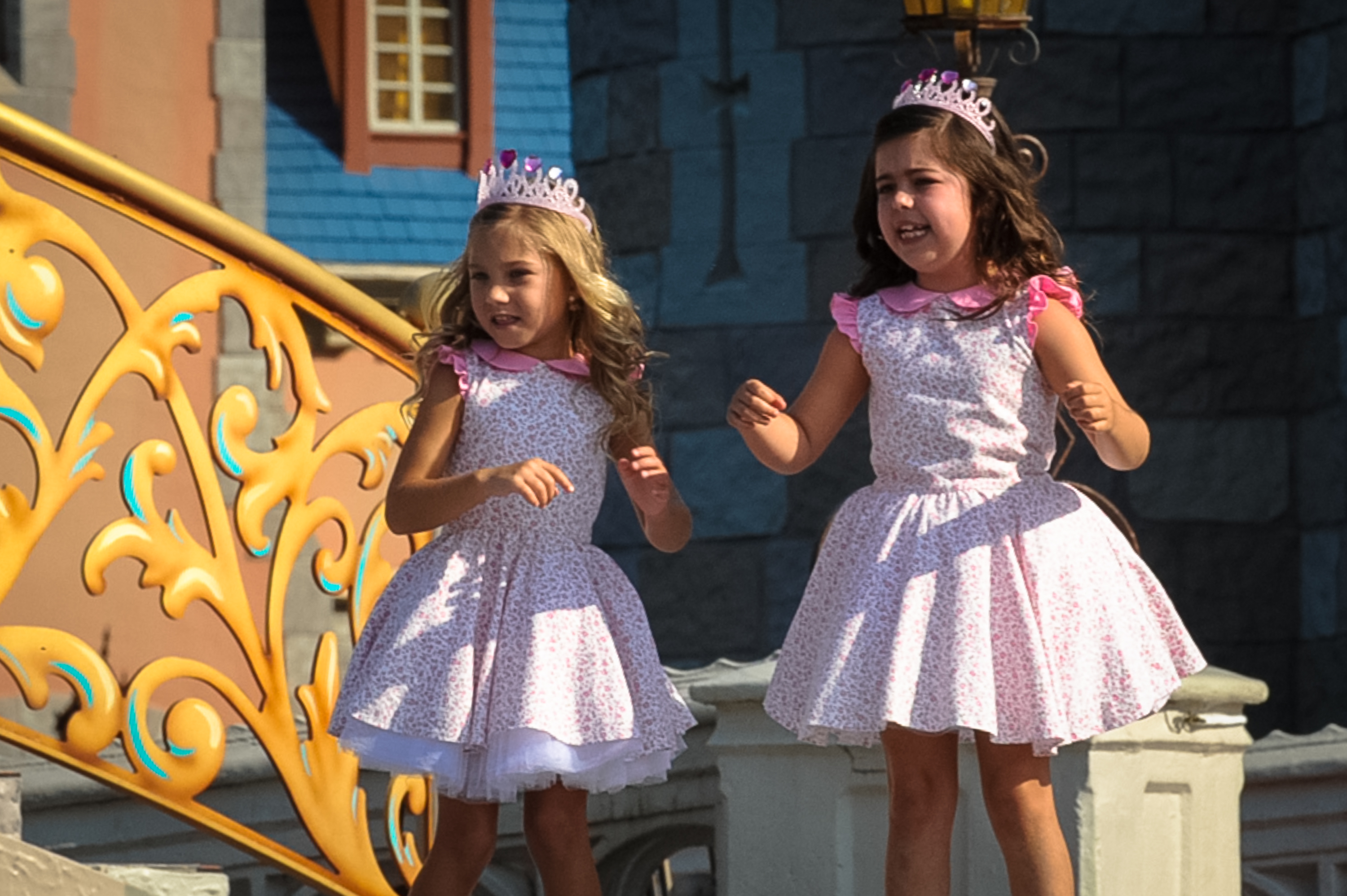 Actresses and singers Sophia Grace Brownlee and Rosie McClelland in the Magic Kingdom in 2013.